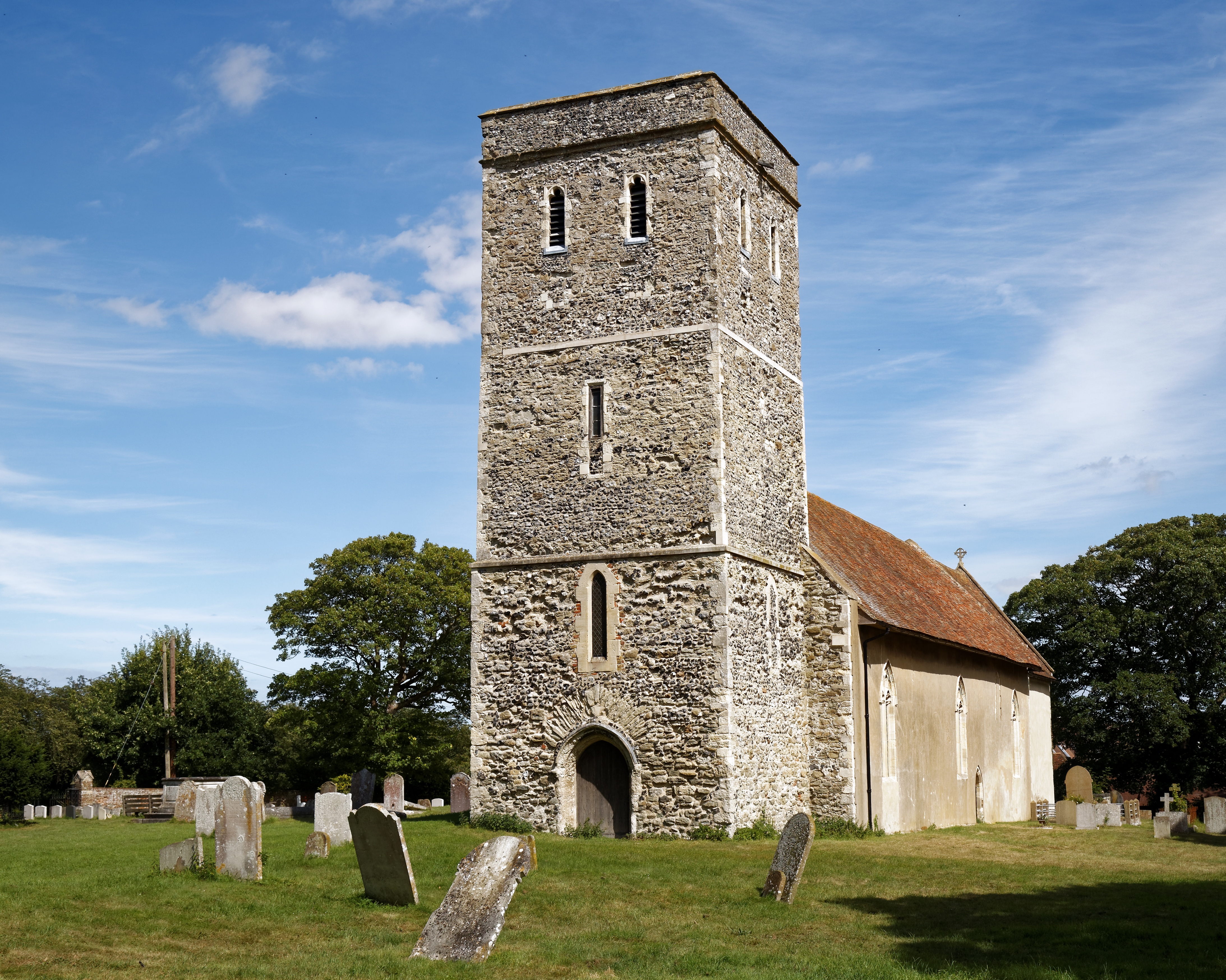 The Church of St Mary Magdalene from the south-west at Monkton, Kent, England.Camera: Canon EOS 6D with Canon EF 24-105mm F4L IS USM lens.Software: RAW file lens-corrected, optimized, perhaps cropped, and converted to JPEG with DxO OpticsPro 11 Elite, and likely further optimized with Adobe Photoshop CS2.